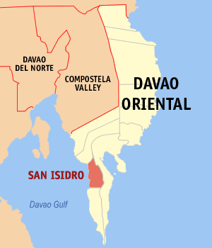 Map of the Davao Oriental showing the location of San Isidro